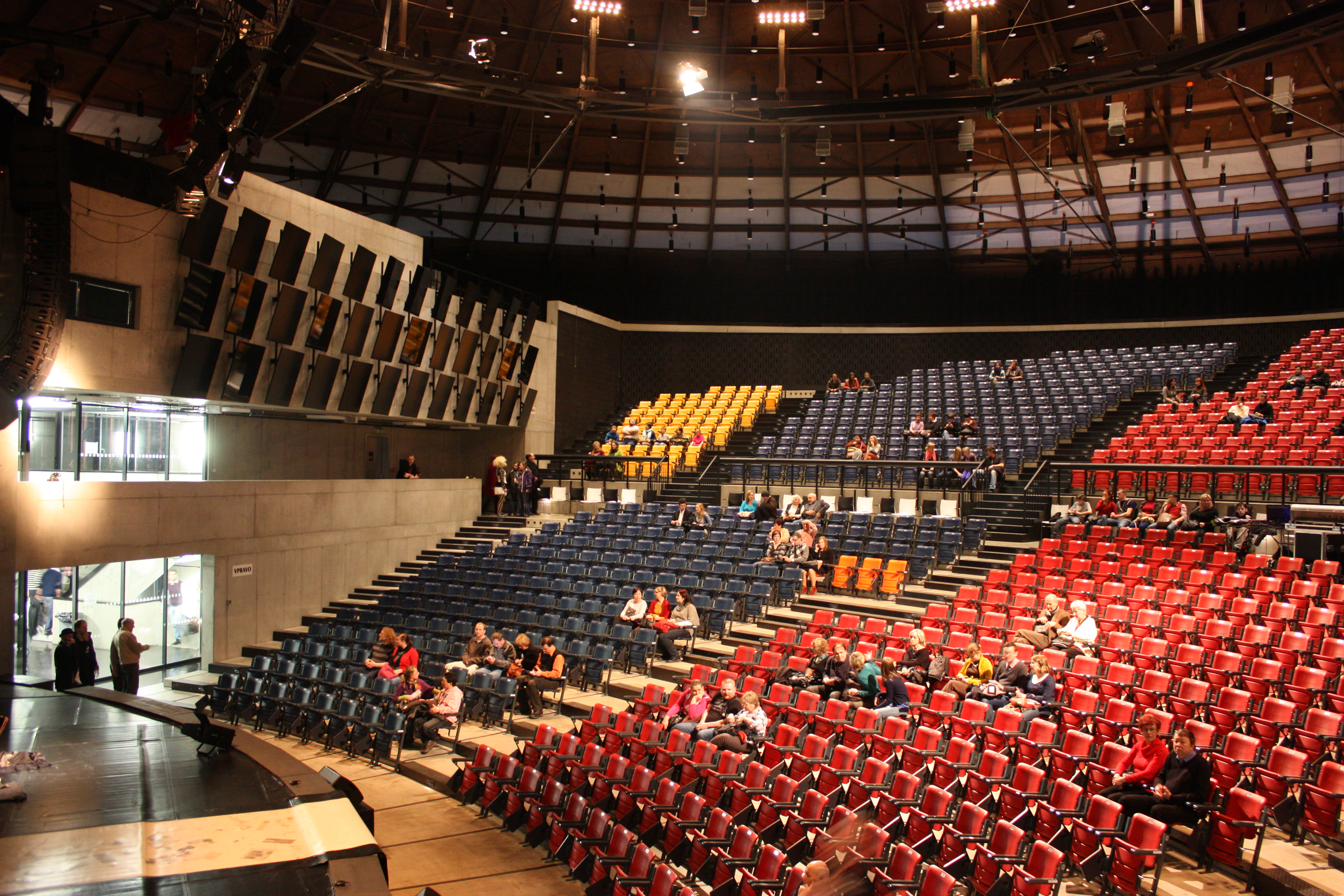 Gong - multifunctional hall in Ostrava - Vítkovice.